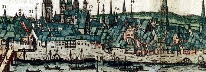 Detail of a panorama of Maastricht, Netherlands, around 1570. Bird view panorama from the east, based on a drawing by Simon de Bellomonte of ca. 1570, published in 1575 in Part 2 of Braun & Hogenberg's atlas of world cities Civitates orbis terrarum. Here: the riverside section between the Meuse bridge and Molenpoort (Hoenderstraat).